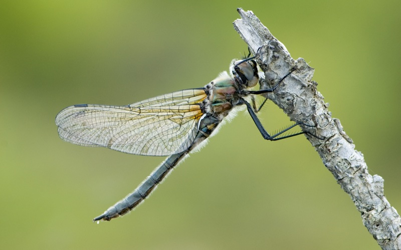 Cordulia shurtleffi, an emerald - my first dragonfly of the season. The blackflies were really thick when I was taking this photo - they were on the lens, on my glasses, everywhere - even on the dragonfly!